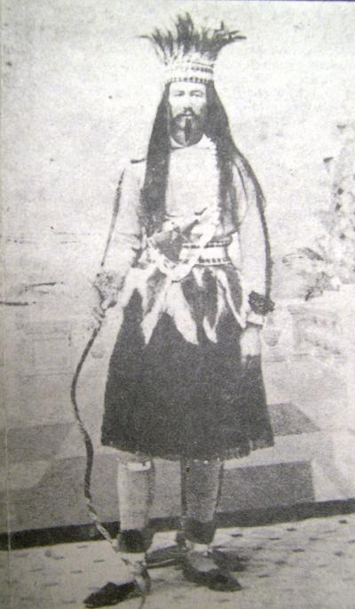 Antique photograph, prior to 1879, of "Old Slac" or Joe Cain (1832-1904) dressed as his Mardi Gras fictional character, Chikasaw "Chief Slacabamorinico" with feathered headdress and native attire. His role as Slacabamorinico ("slaka-BAM orin-i-CO") is noted on his gravestone in Church Street Cemetery in Mobile, Alabama.